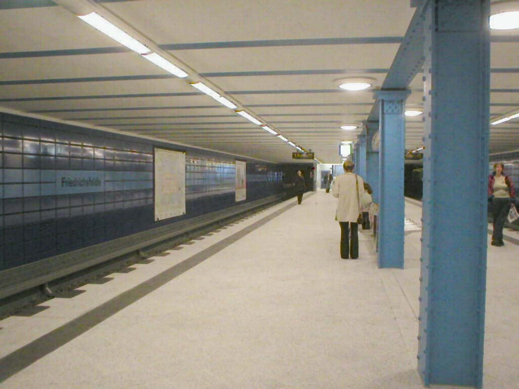 the Berlin U-Bahn station Friedrichsfelde, line U5